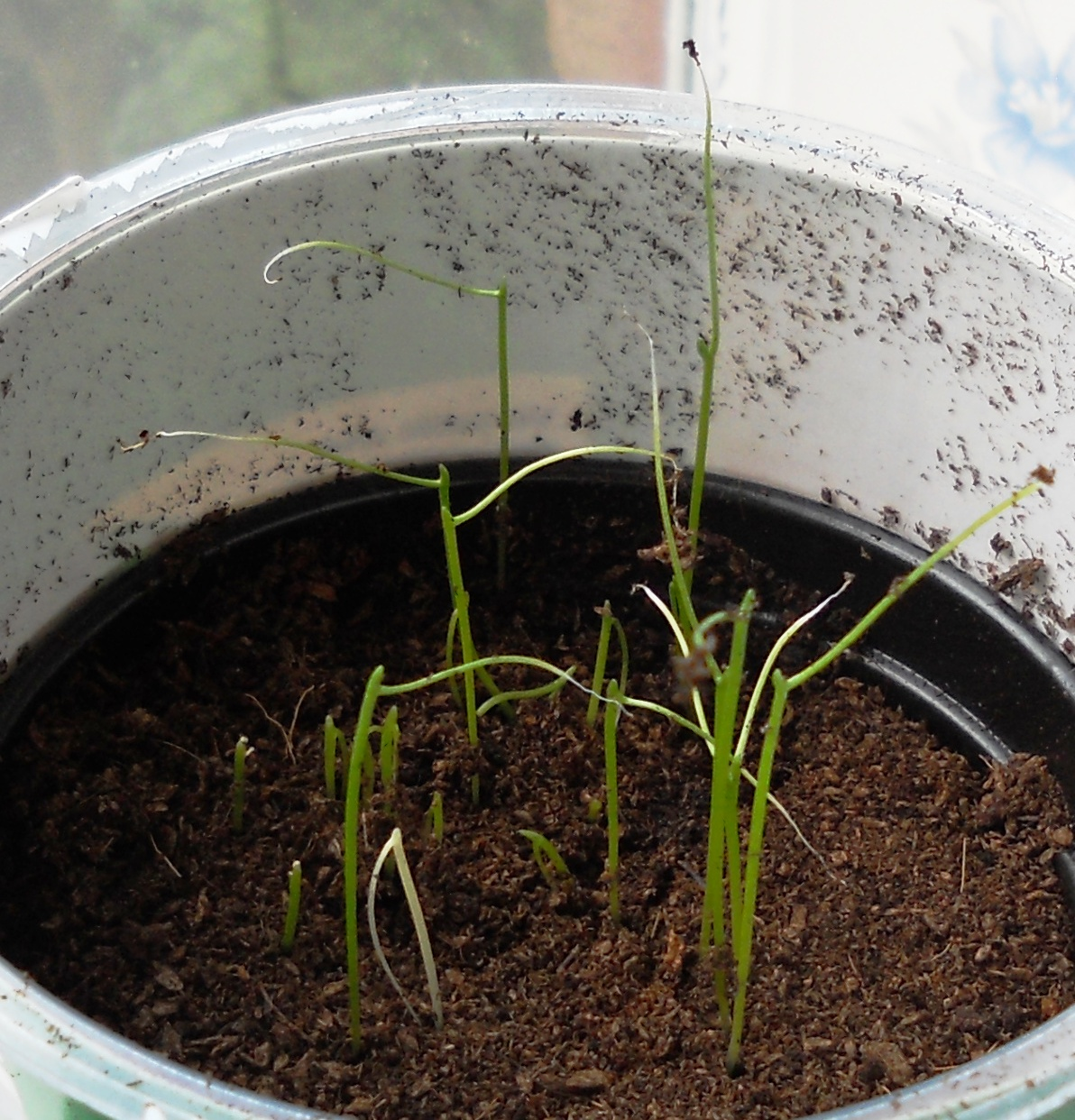 Photograph of chive seedlings sprouting.